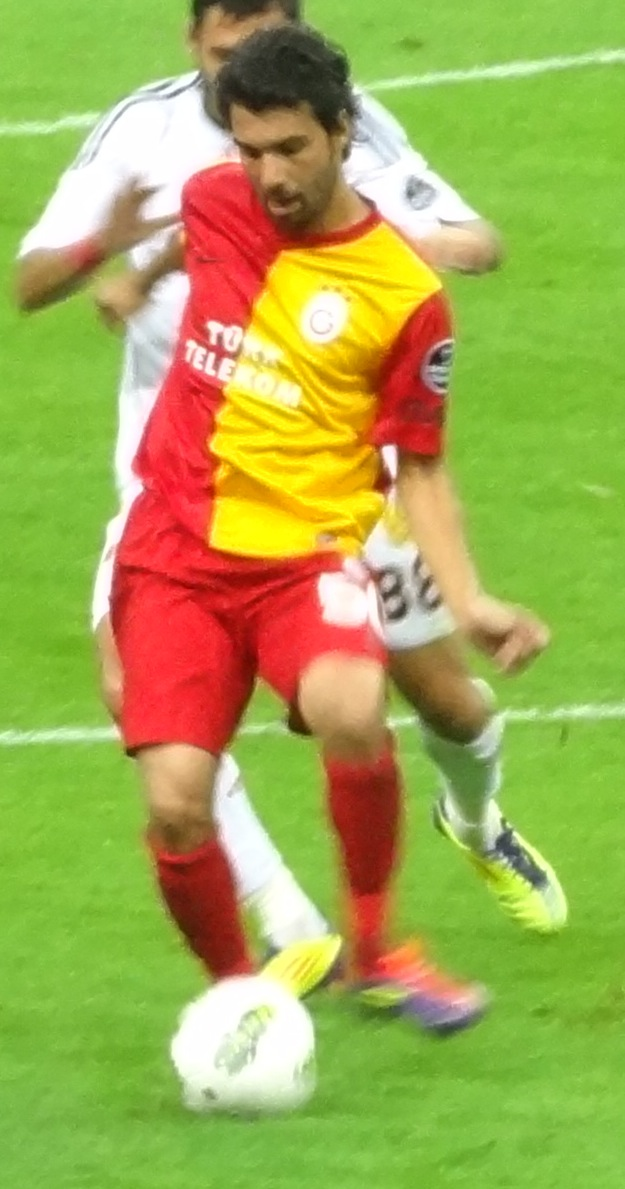 engin baytar vs eskişehir 26.09.11